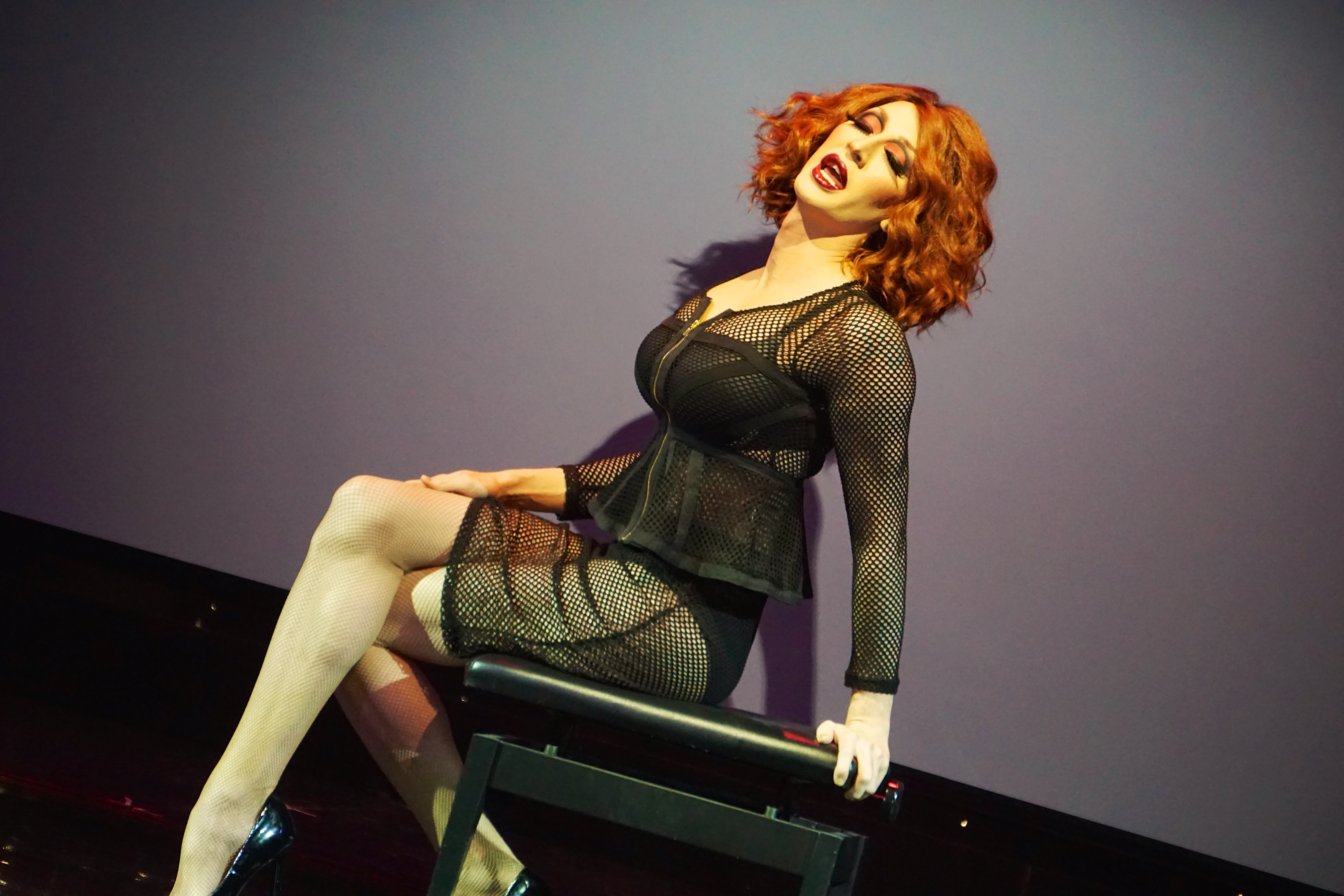 Drag Queen Detox Icunt performing onboard Splendour of the Seas during Drag Stars at Sea Europe 2014